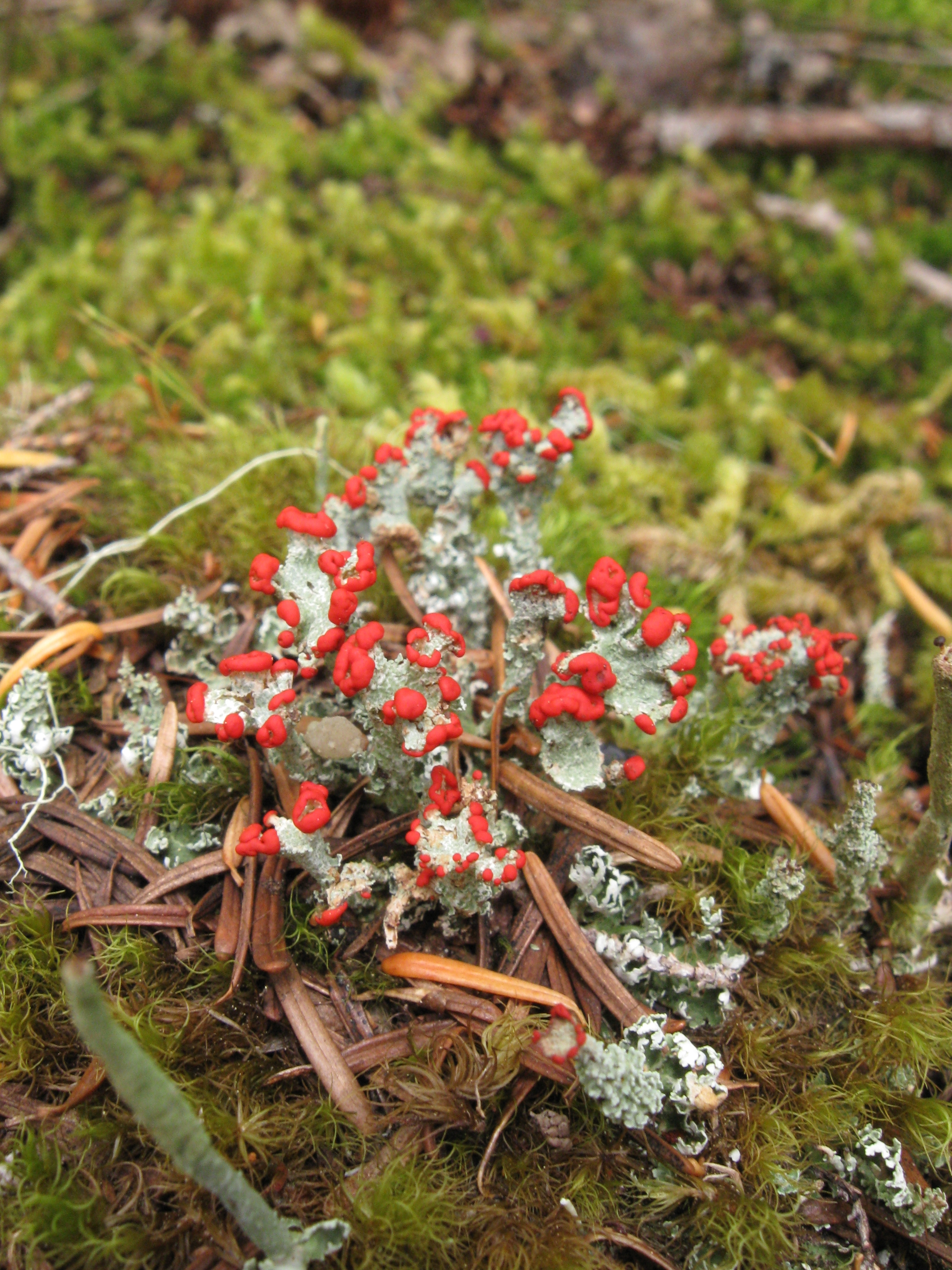 Cladonia macilenta lichen thallus. Photo taken along the West Fork Dosewallips river, Olympic National Park, WA, USA. 6/2009